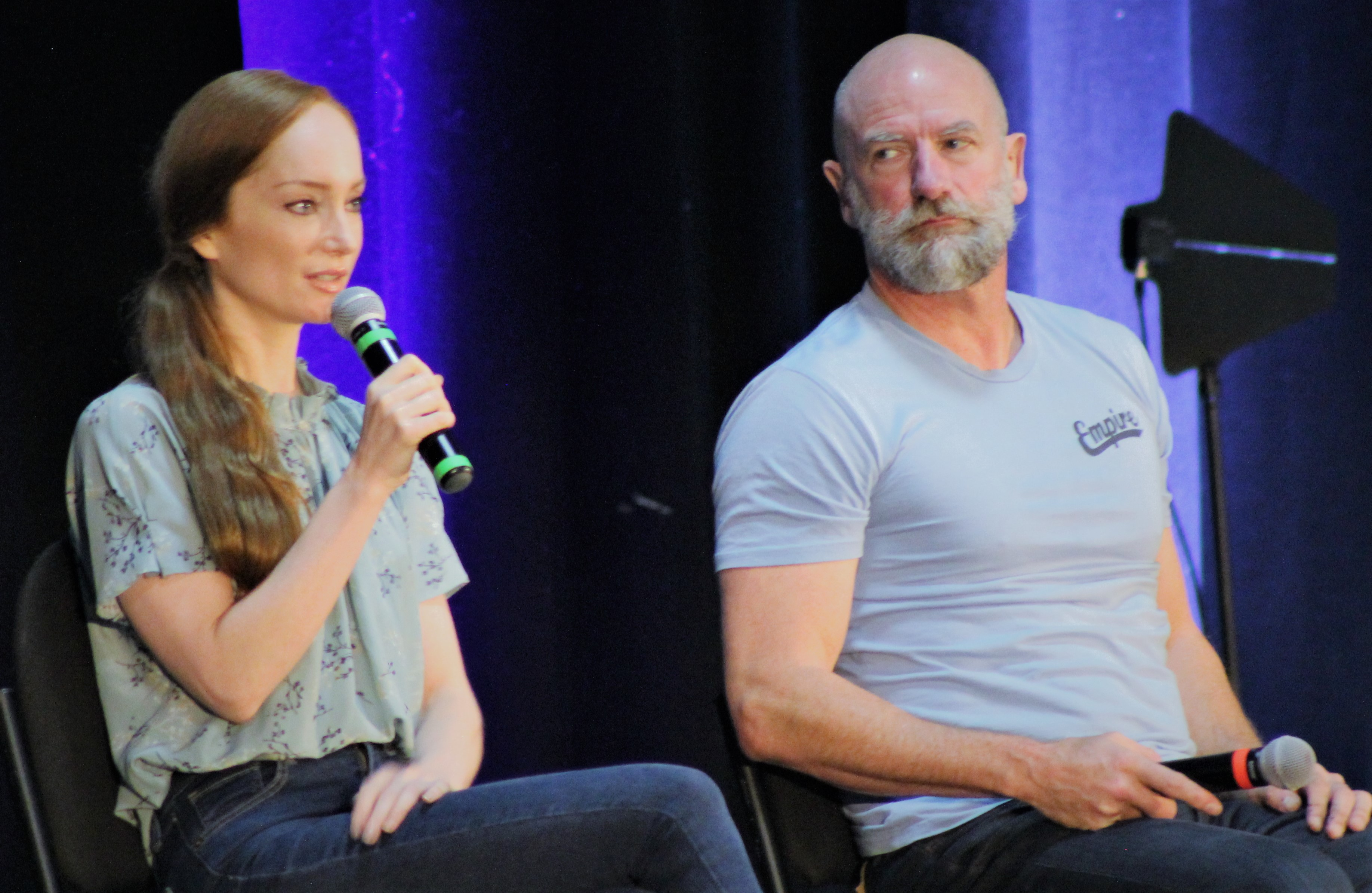 Lotte Verbeek (and Graham McTavish) answering fan questions at Creation Entertainment's Outlander Convention in New Jersey on 19 August 2018.